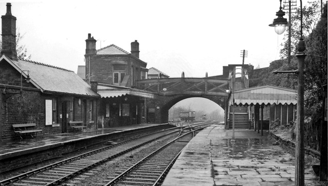 Berry Brow (former) Station. View NW, towards Huddersfield; Penistone - Huddersfield line. This station was closed 4/7/66. The road bridge in the photo is at the top of Station Lane, where it connects to Taylor Hill Road and Birch Road. A new single platform station was built 300 yards further away from Huddersfield in 1989, further along Birch Road, close to Farehill Road. The Station Master's house was on the opposite side of the bridge, overlooking the former coal yards.